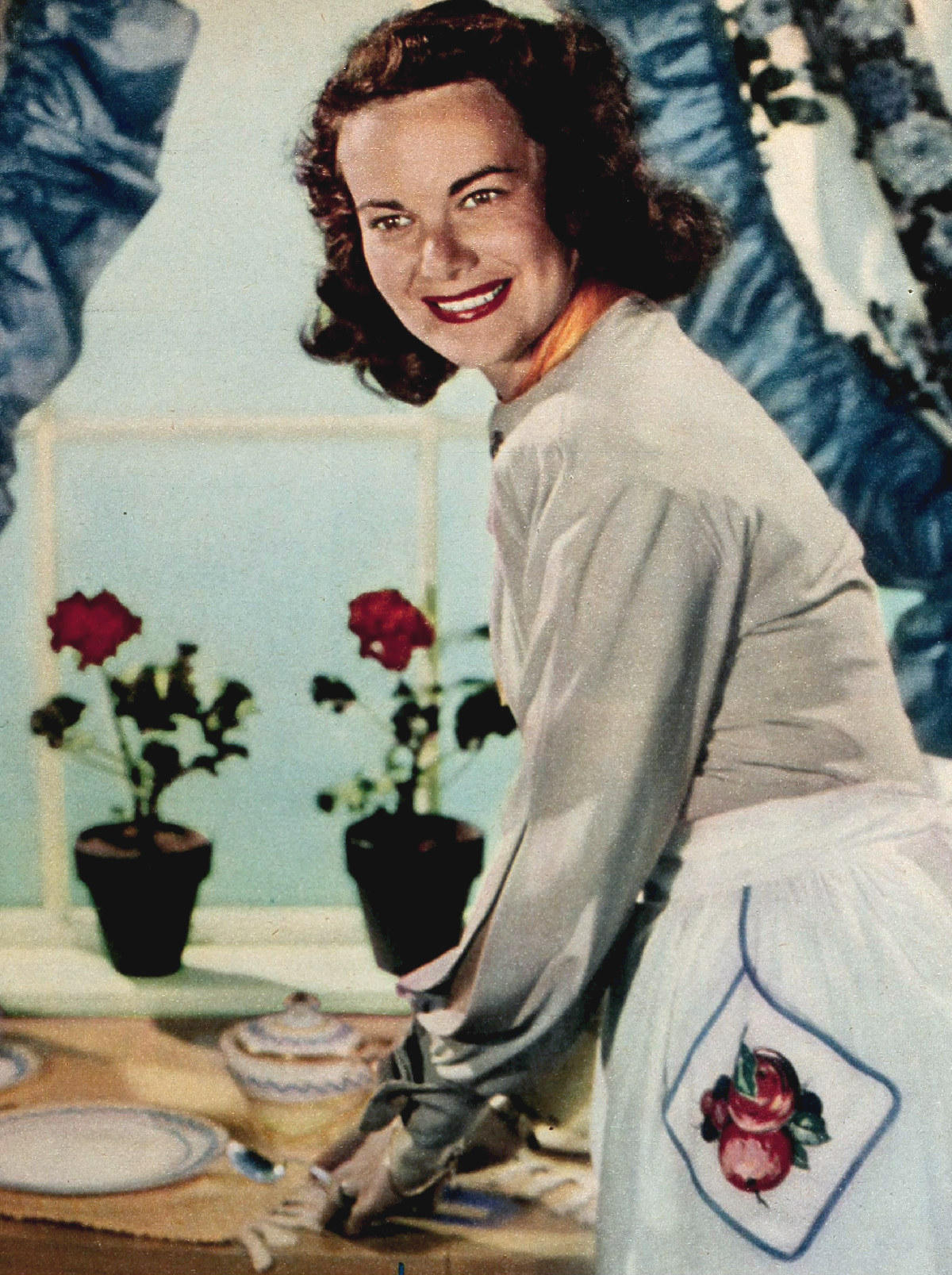 Photo of Claire Niesen as Mary Noble in 1947. Renewal searches were done in publications for the years 1974 and 1975. There were no listings for Radio Mirror; there's no evidence of current copyright.